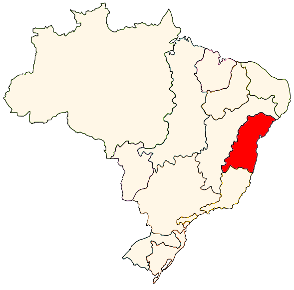 Hydrographics regions in Brazil - Atlântico Leste